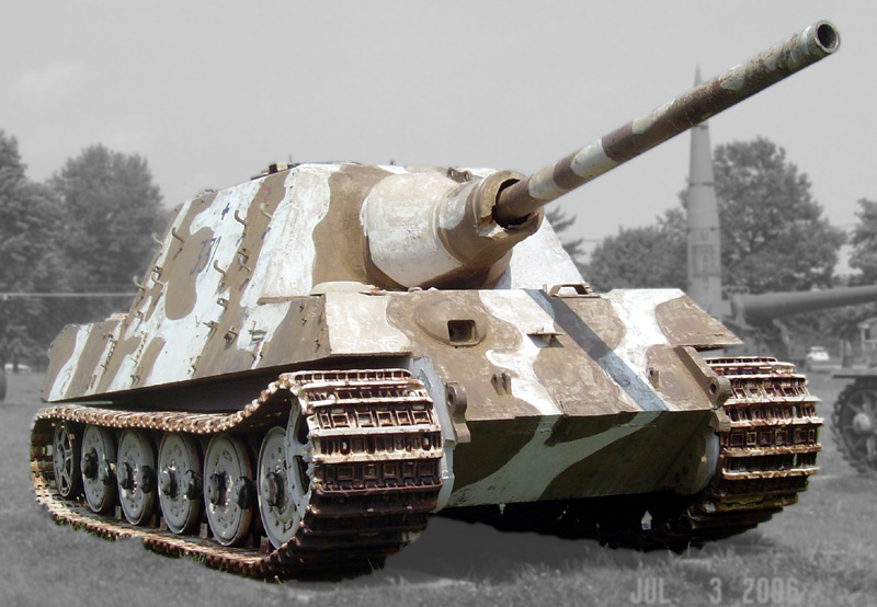 Jagdpanzer VI Jagdtiger on display at the US Army Ordnance Museum in Aberdeen. The picture taken July 3, 2006.